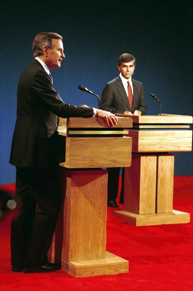 Vice President Bush debates with Michael Dukakis, Los Angeles, CA 13 Oct 88